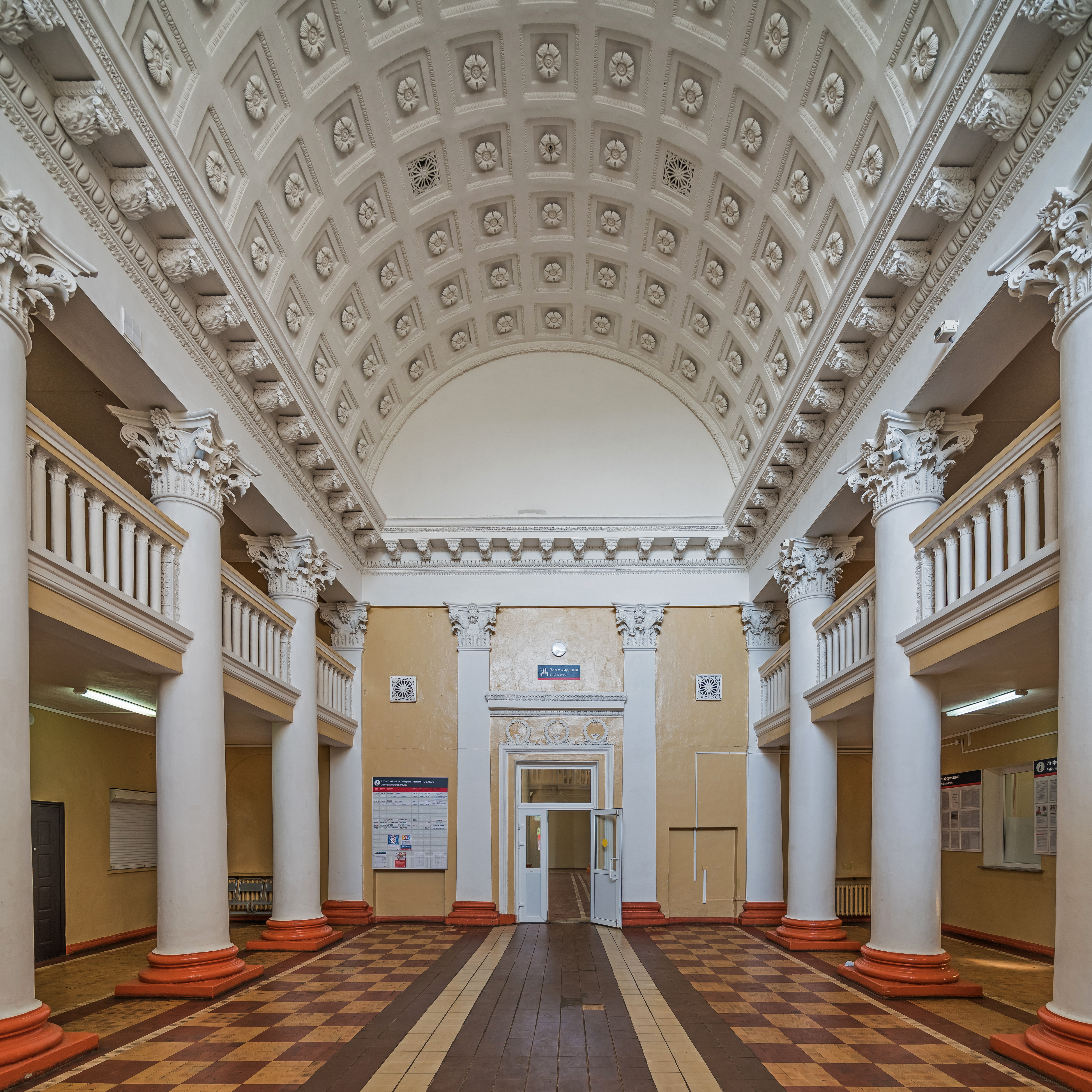 Railway station in Staraya Russa, Novgorod Oblast, Russia